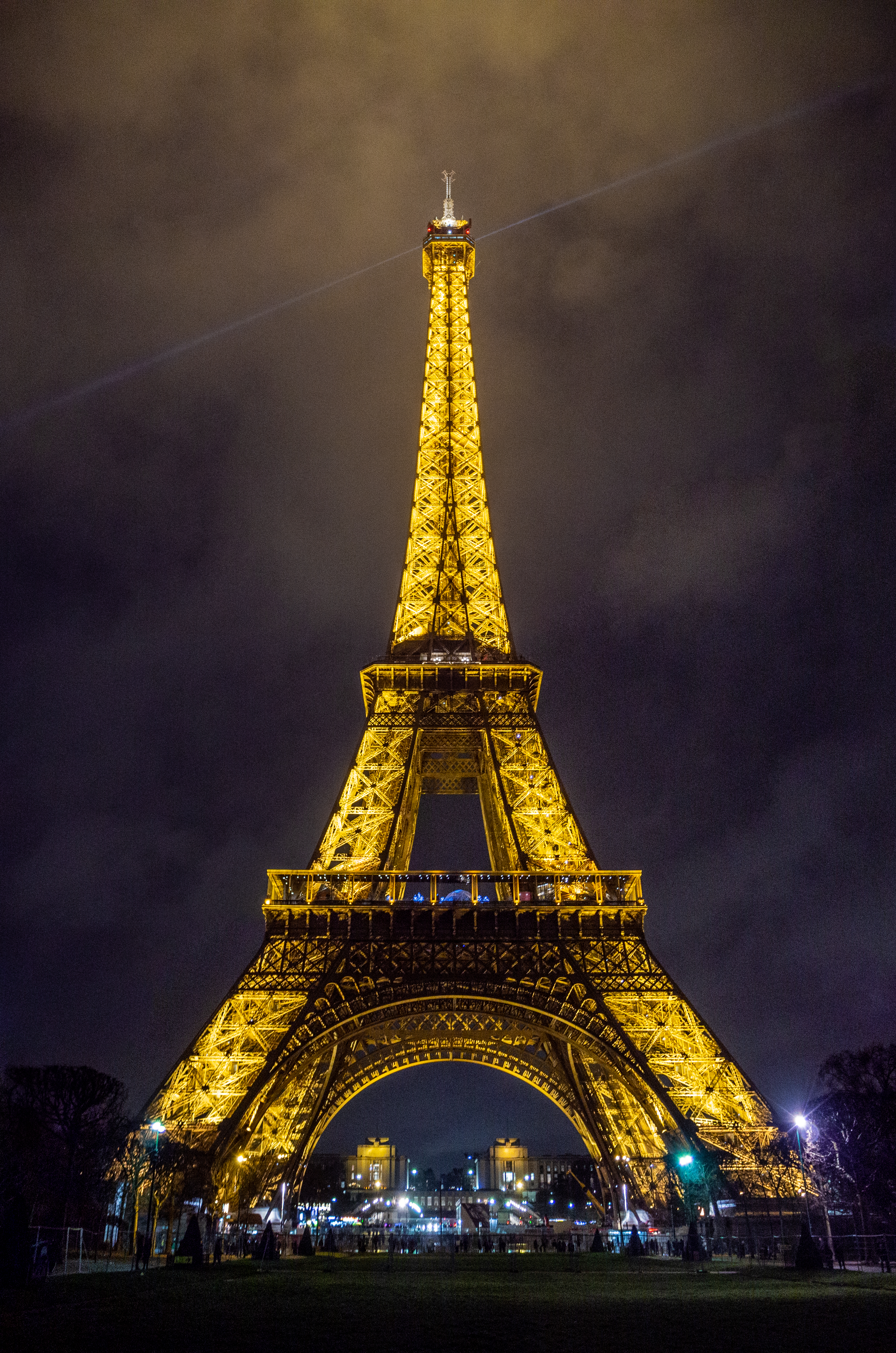 The Eiffel Tower at night, january 2019. It was a really cold and cloudy night, in that day it was rainning for a while so itwas a bit hard to take this picture